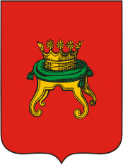 Tver (Tver oblast), coat of arms (1780)